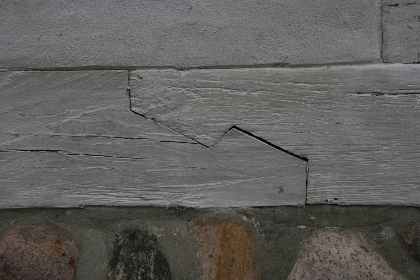 Scarf joint, a construction method for joining two beams end to end